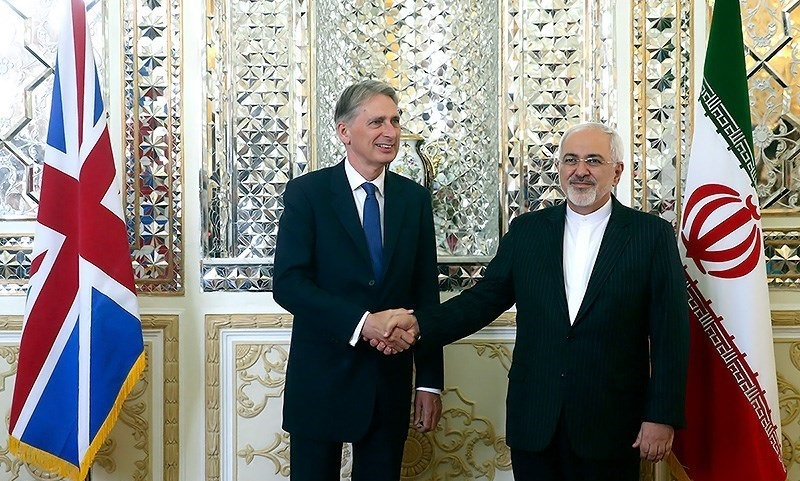 Iran-UK Foreign ministers meeting in Tehran